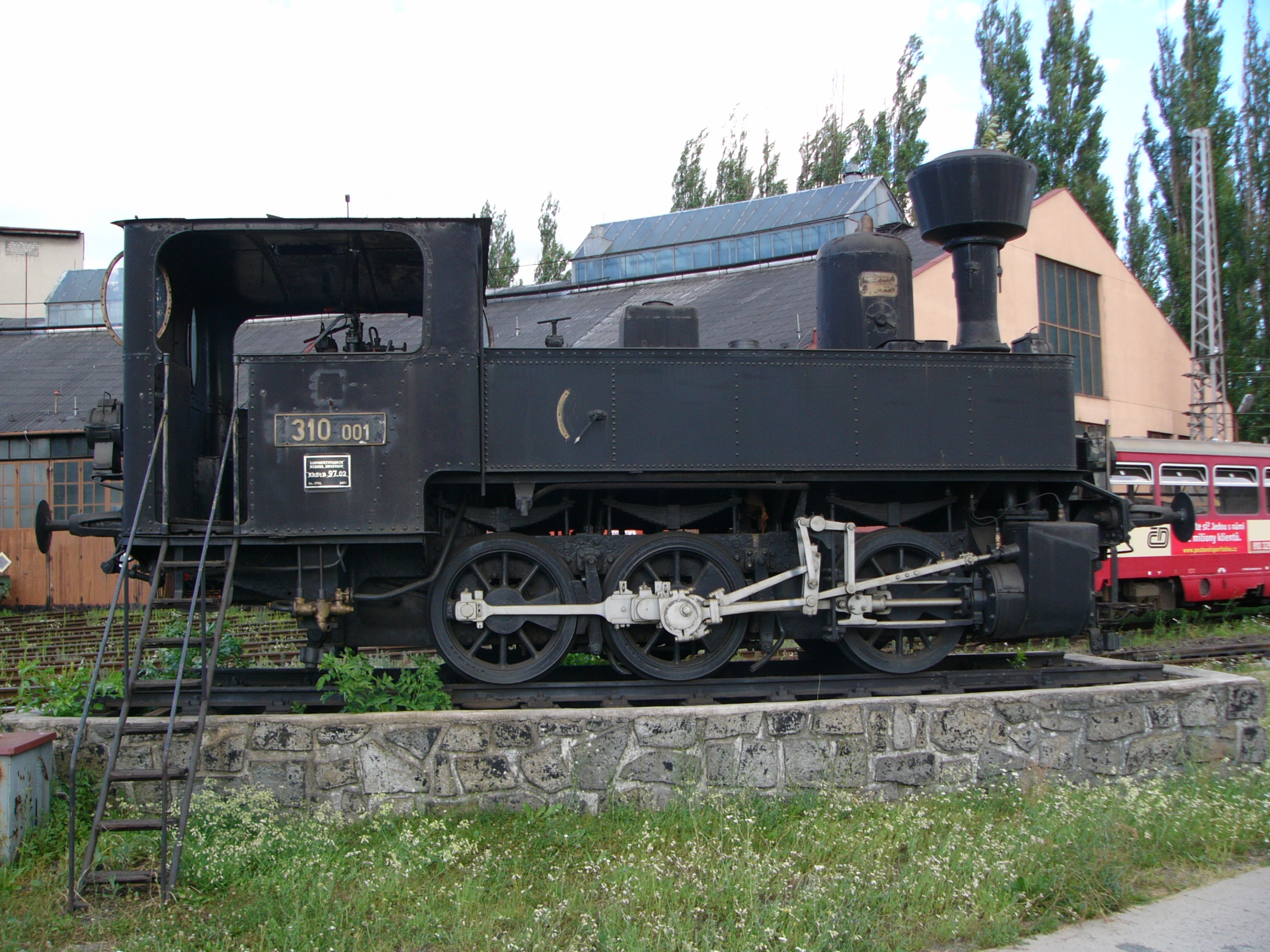 Steam locomotive 310.0 (310.001) in Olomouc (Czech Republic).